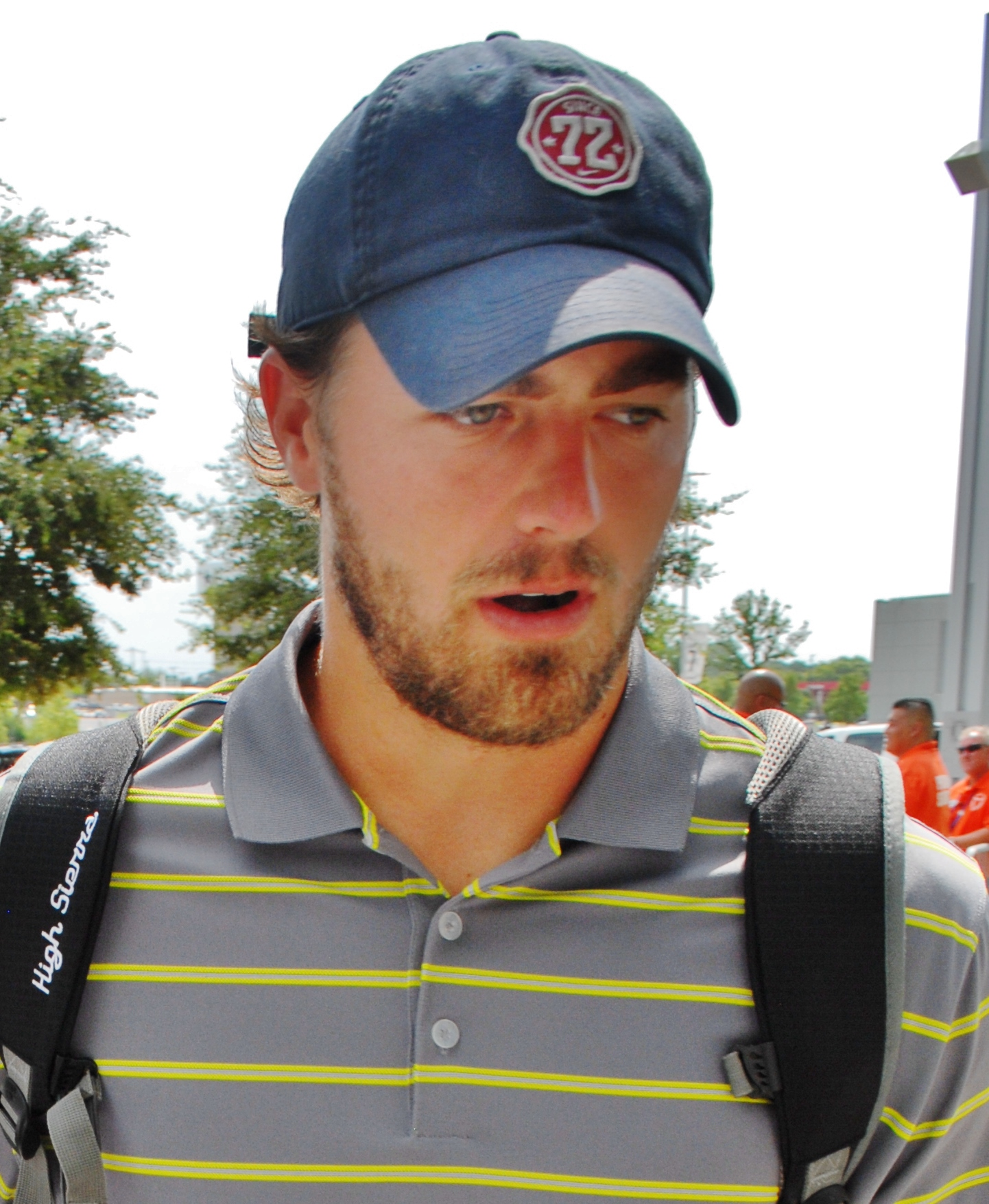 Dallas Cowboys backup quarterback Stephen McGee arrives at the Cowboys Stadium in 2012.